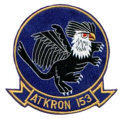 Attack Squadron 153 Insignia